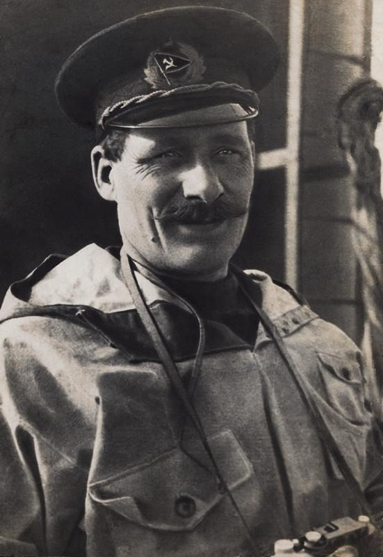 Vladimir Voronin, polar Explorer, captain of the icebreaker fleet. Commanded steamers ice-breaker "Georgy Sedov", "Siberians", "Ermak" and "Chelyuskin". 1930s. Photo by P. Novitsky